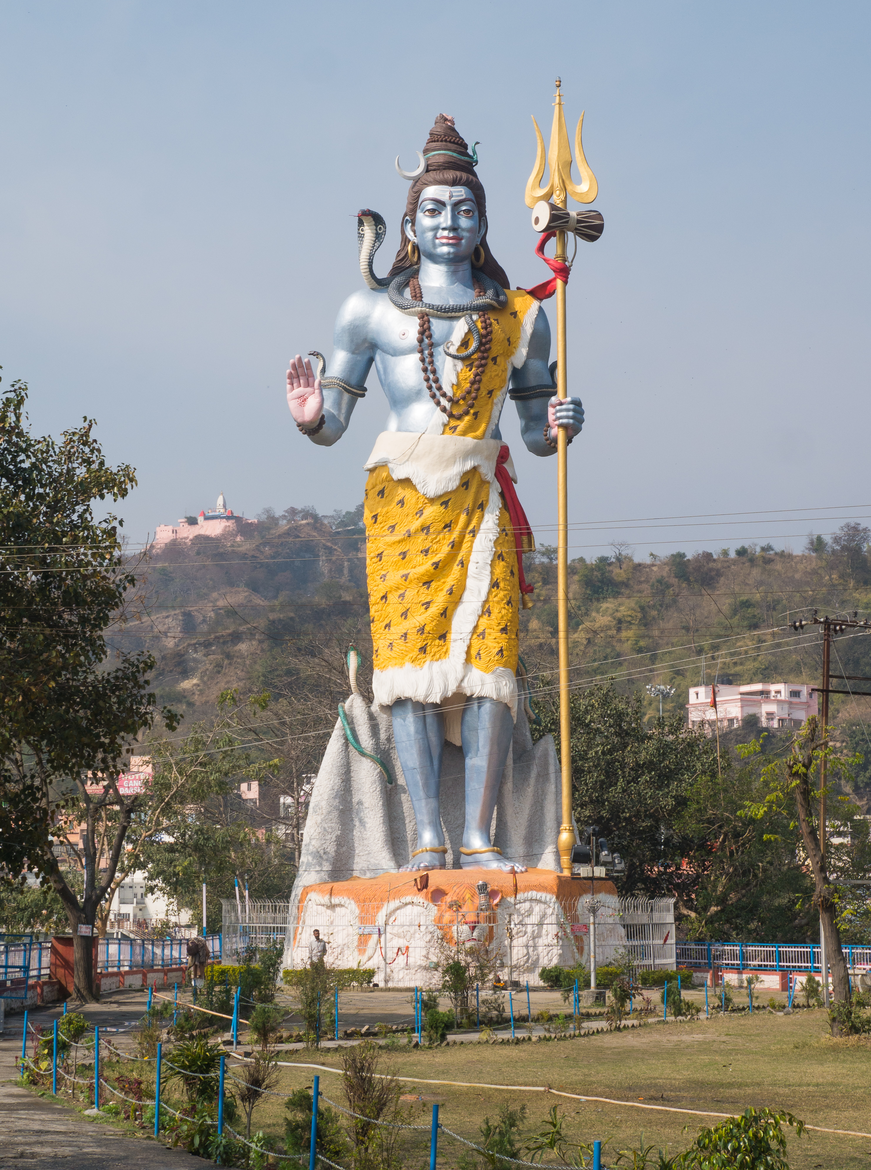 Hinduism, art, culture Uttarakhand 2015